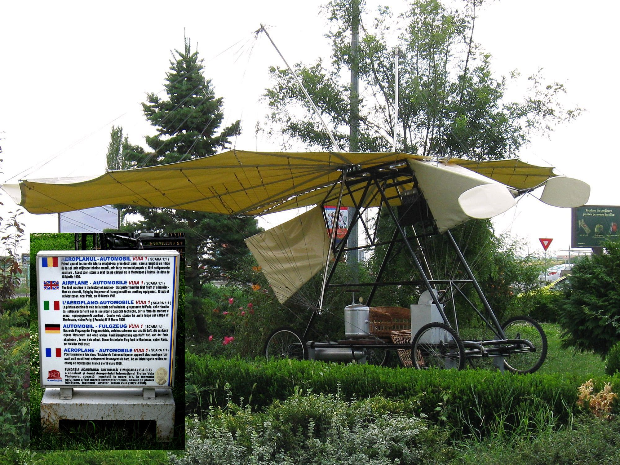 1:1 scale model of the "Vuia 1" plane at the Timisoara International Airport.